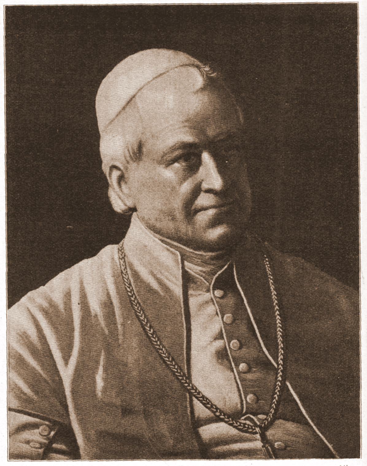 Photo of Pius IX. in brown - correction by Picasa3 (sepia)